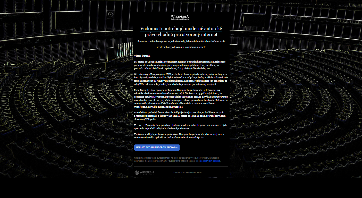 21/3/2019, zoomed out